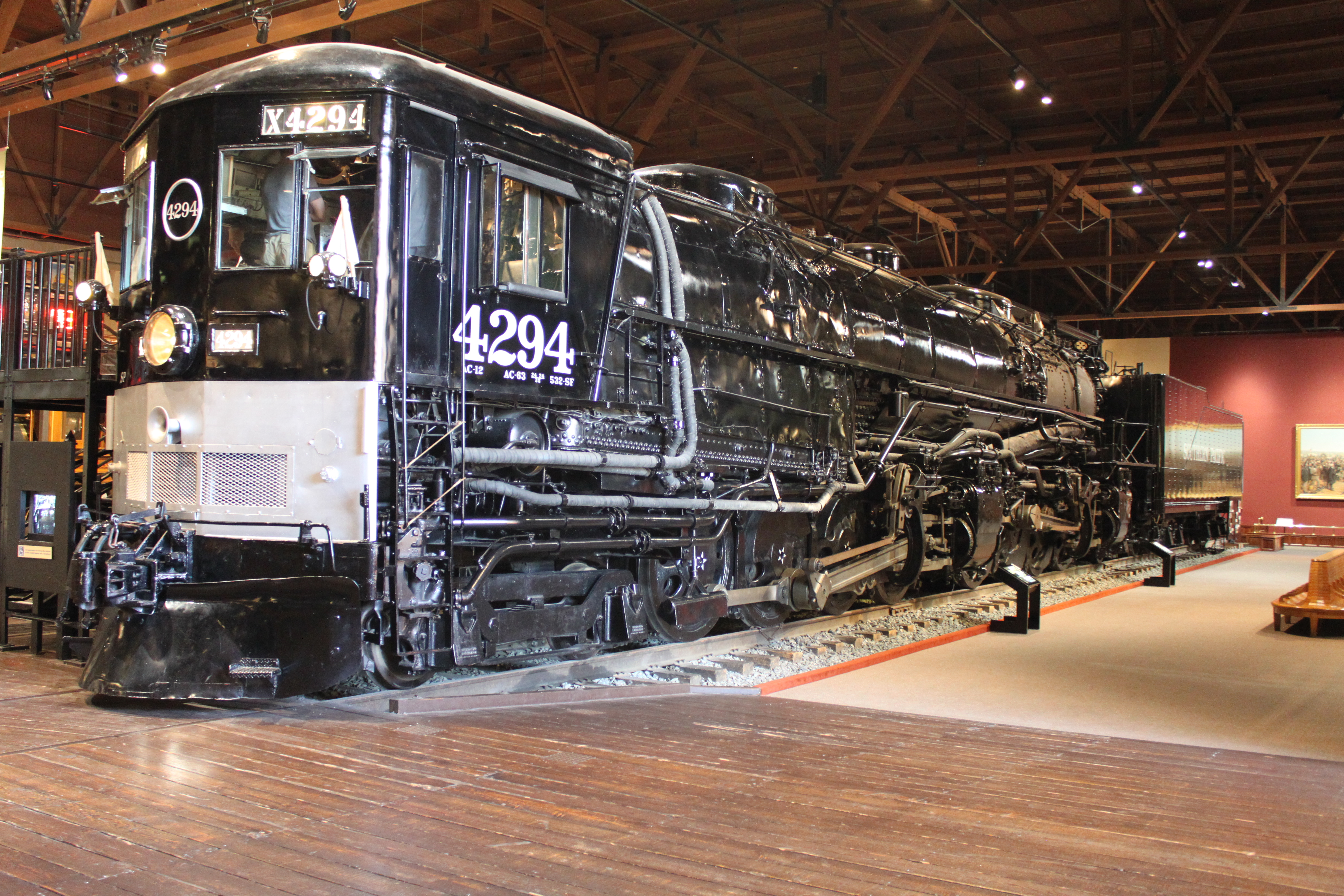 Southern Pacific Cab-First Locomotive 4294 at the California State Railroad Museum